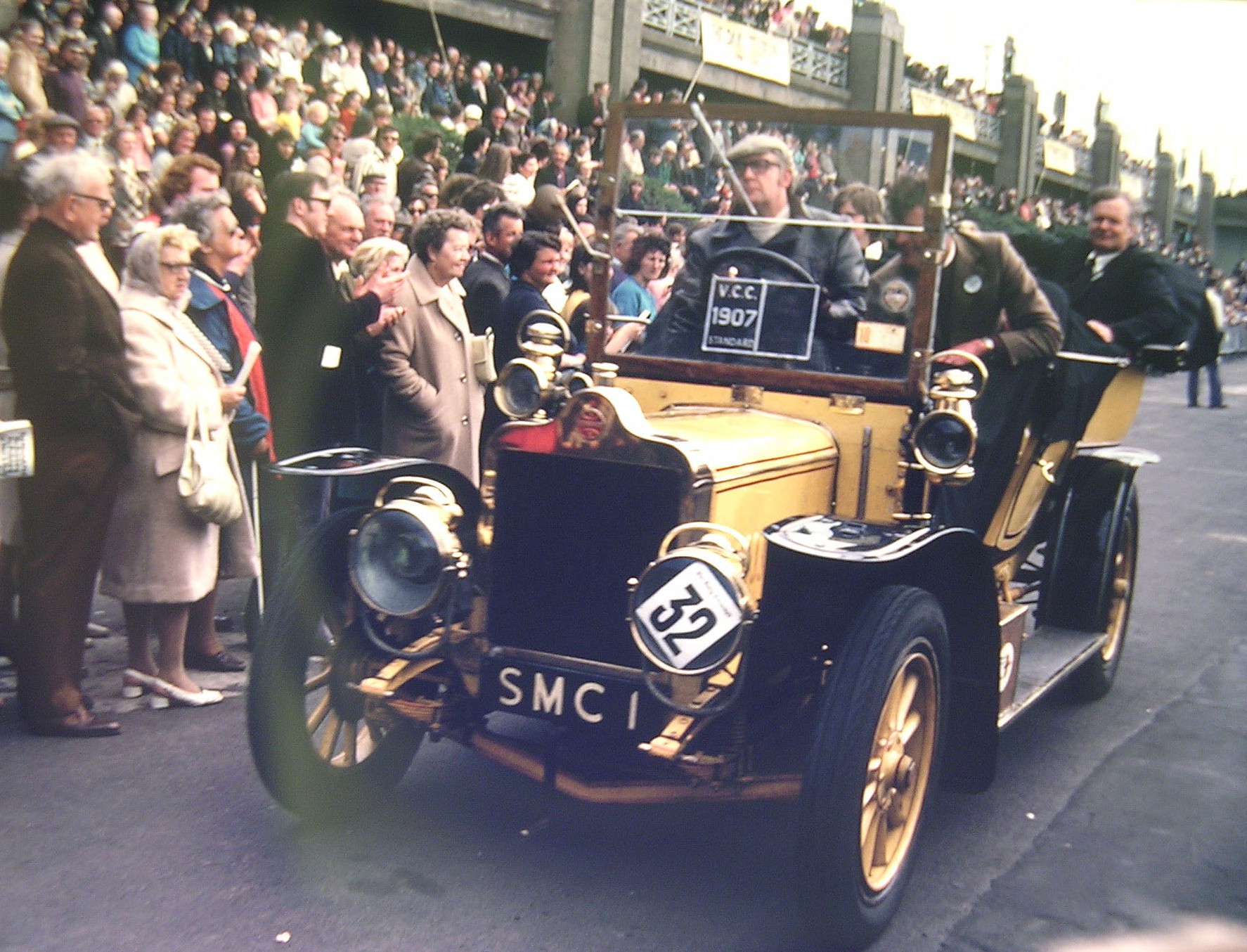 1907 Standard 30 hp 'Roi-des-Belges'. Taken at Blackpool in June 1974 1907, model: B, 29.5 H.P. with Roi des Belges style coachwork restored to original condition by Standard-Triumph Australia Ltd from